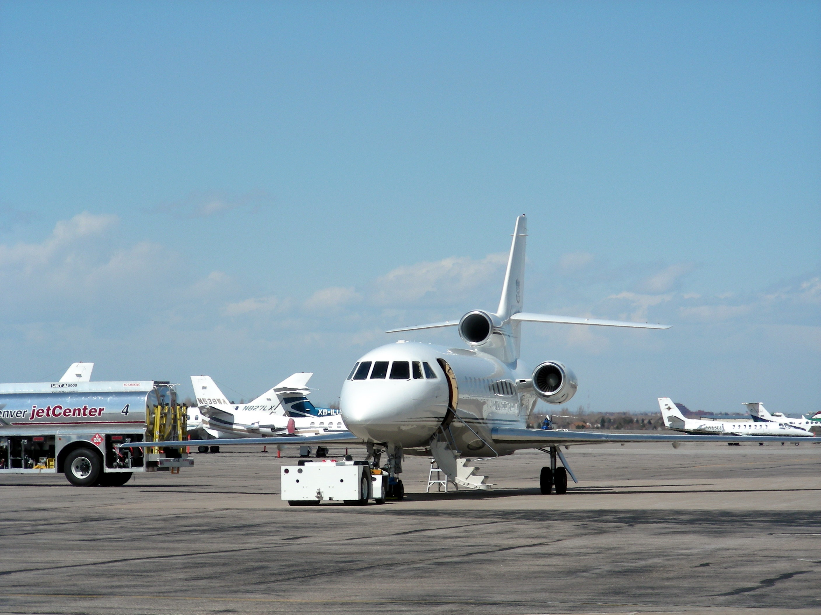 A Dassault Falcon 900 Mystere at Centennial Airport in Colorado, USA.